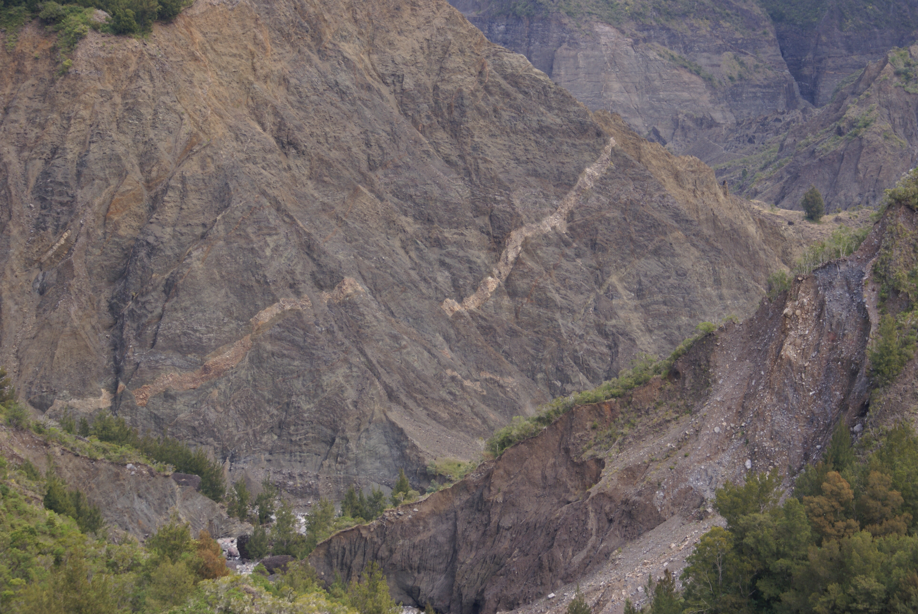 An intrusive volcanic sill in the cirque of Mafate on Réunion island